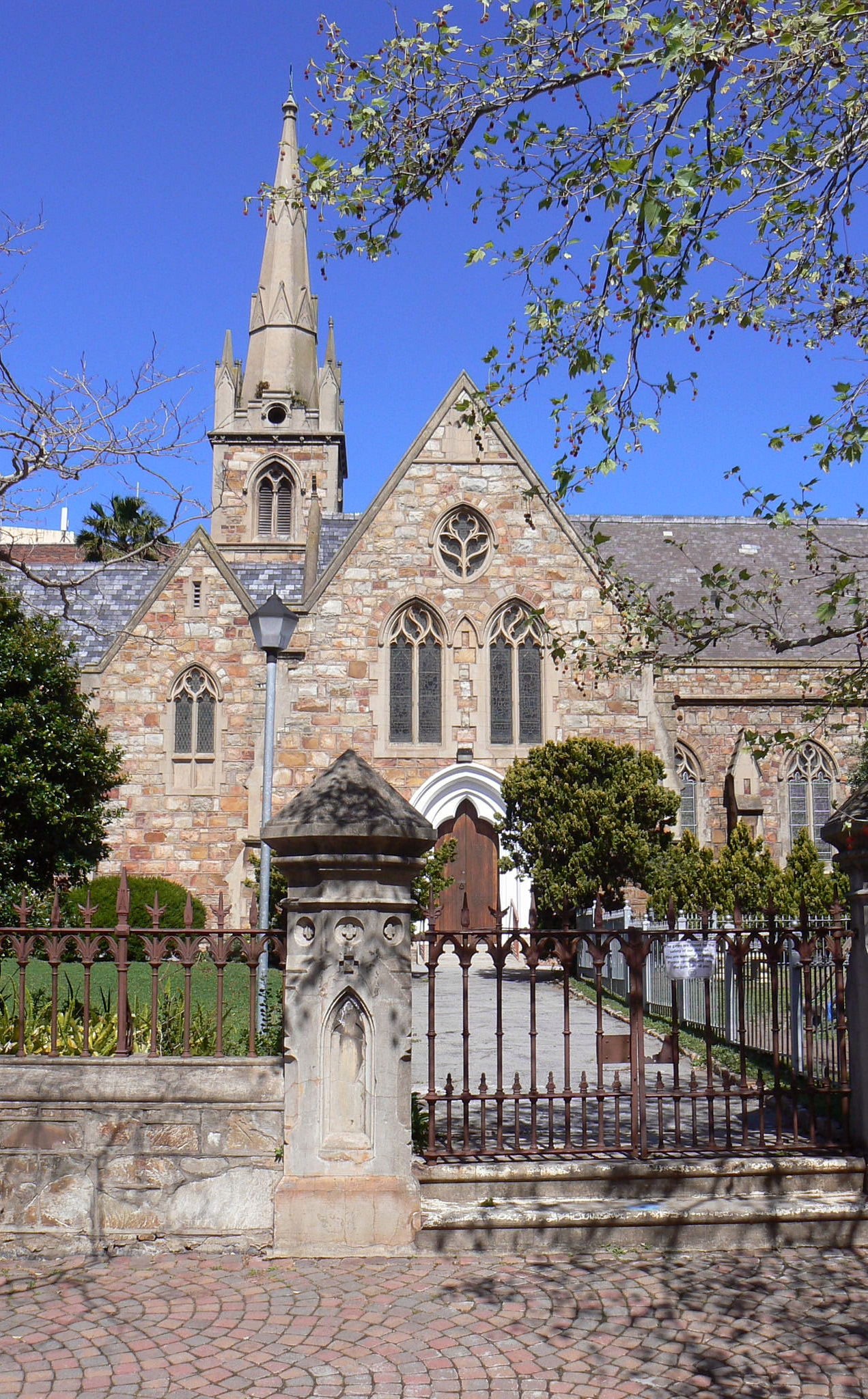 Holy Trinity Anglican Church, Havelock Street in Central, Port Elizabeth, South Africa This media shows a South African Protected Site with SAHRA file reference 9/2/073/0049.